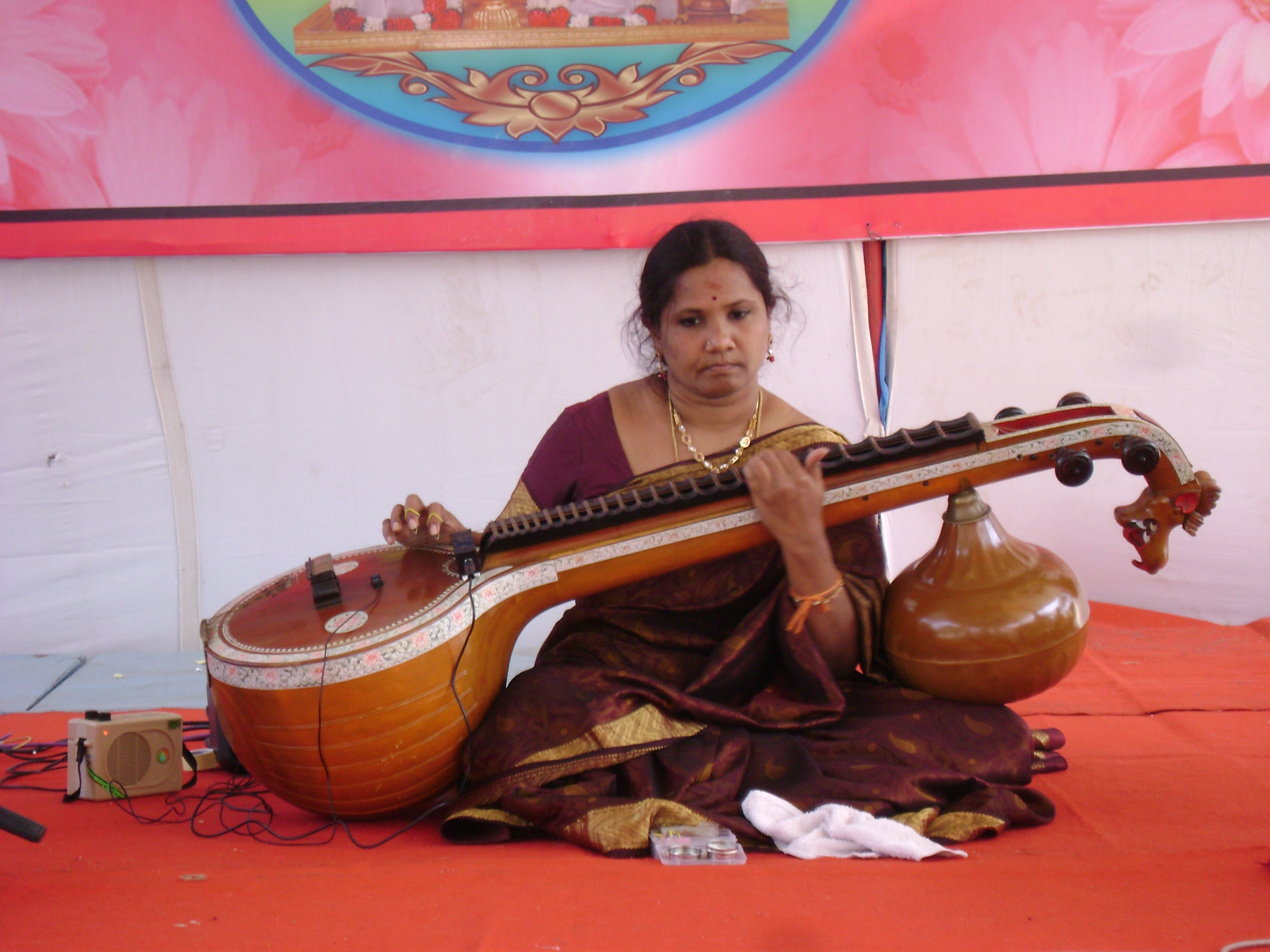 Lecturer in Veena, Sri Venkateswara College of Music & Dance, T.T.D, Tirupati, Andhra Pradesh